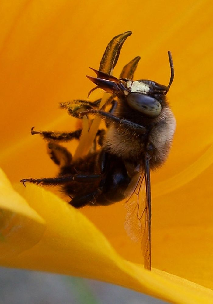 Made in San Jose, California, USA.